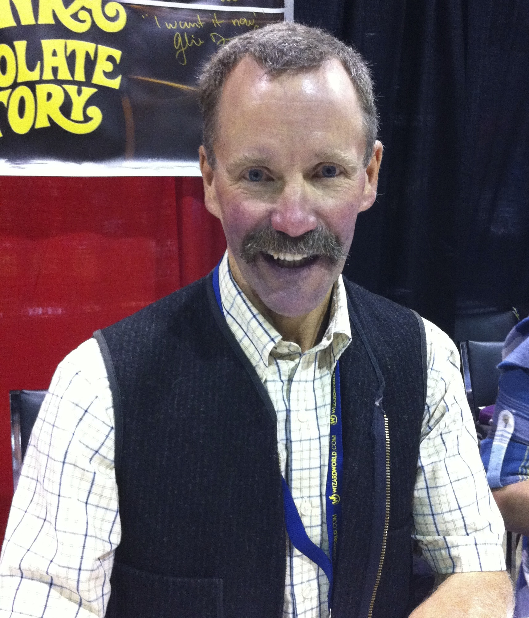 Peter Ostrum at the 2011 Wizard World Chicago event; the child cast of Willy Wonka & the Chocolate Factory were promoting that film's 40th anniversary.